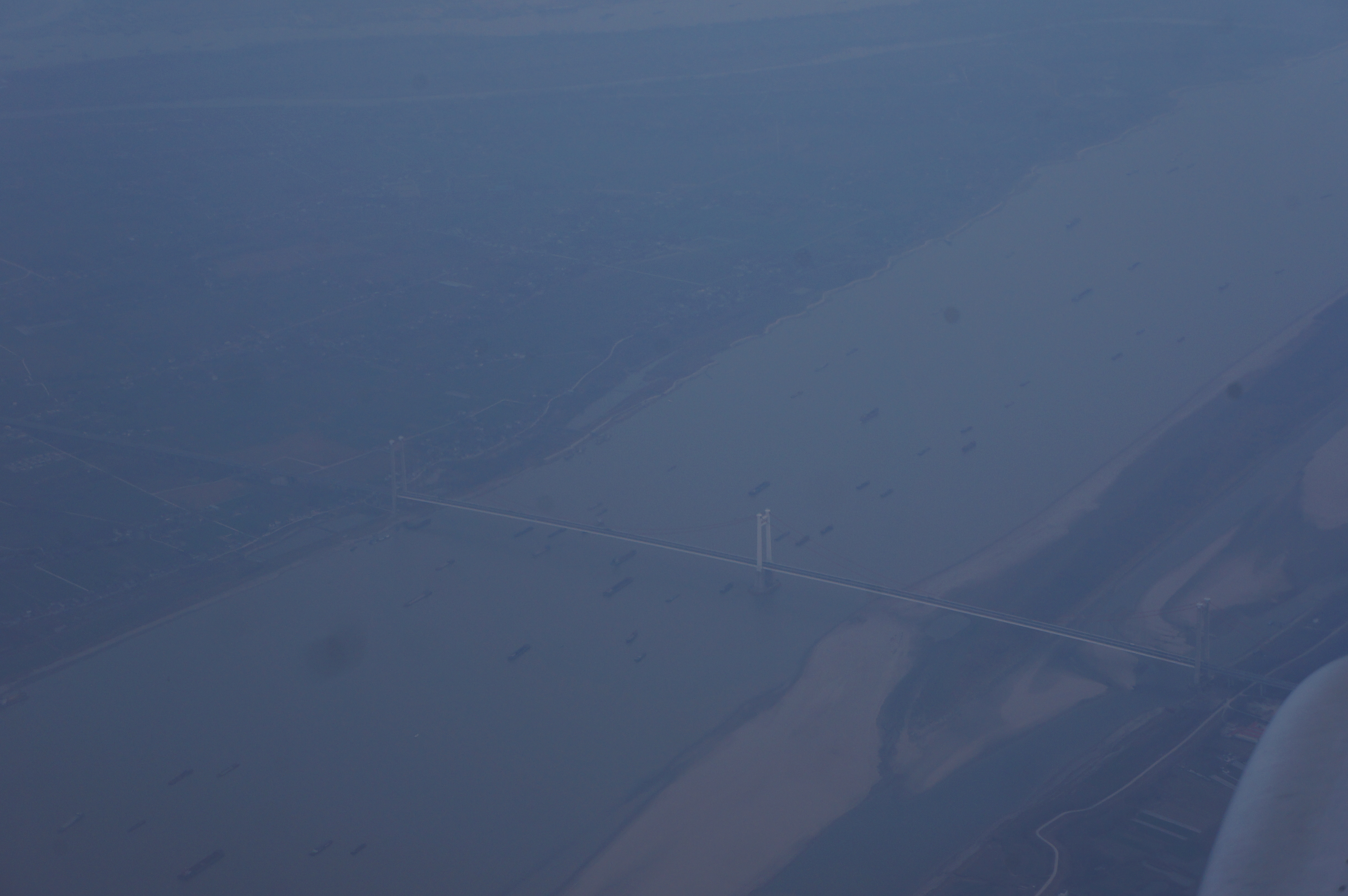 201712 Ma'anshan Yangtze River Bridge